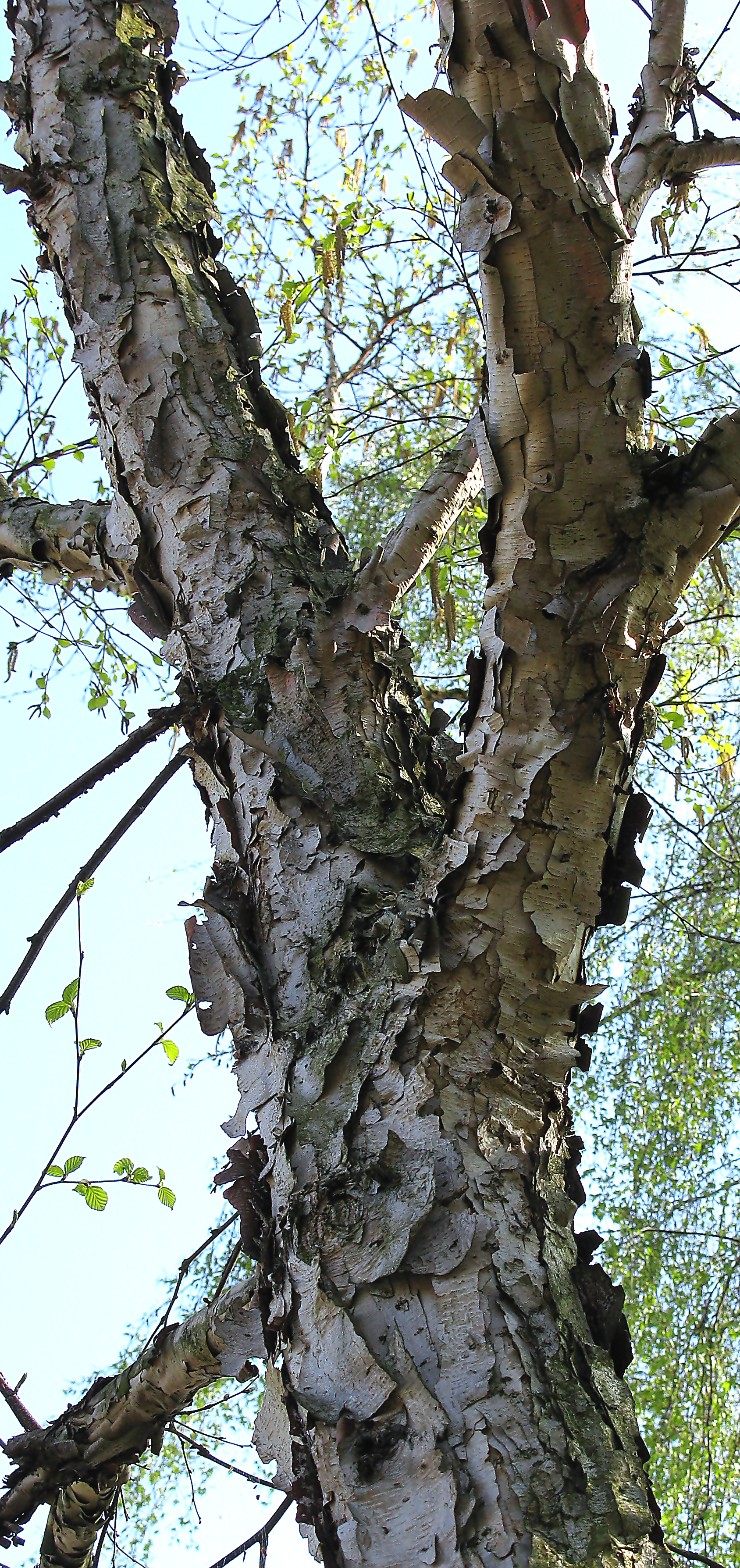 Creamy Bark Birch (Betula costata).